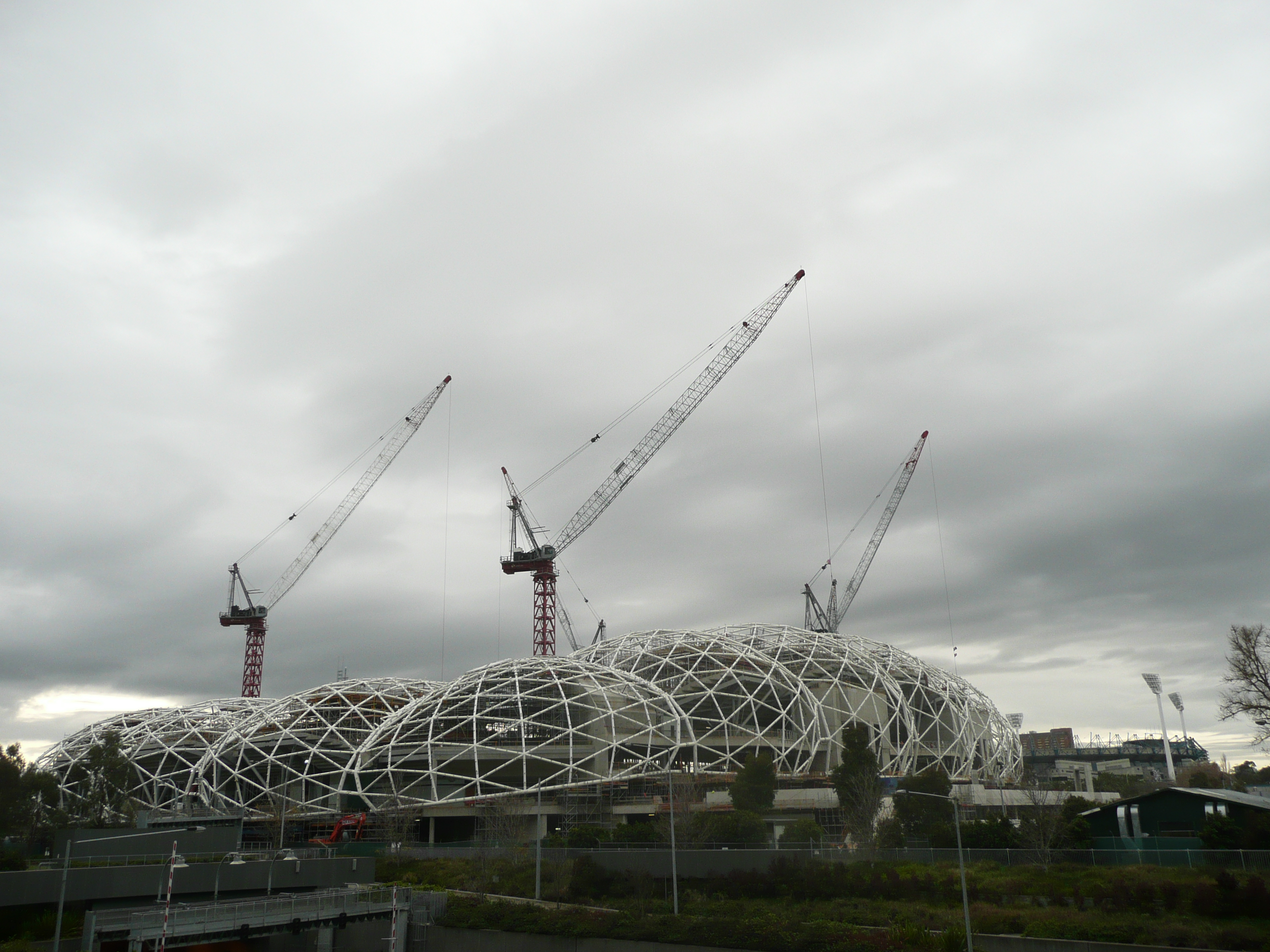 The rear of the Melbourne Rectangular Stadium, currently under construction. The MCG can be seen beyond it at the right (note the floodlights).